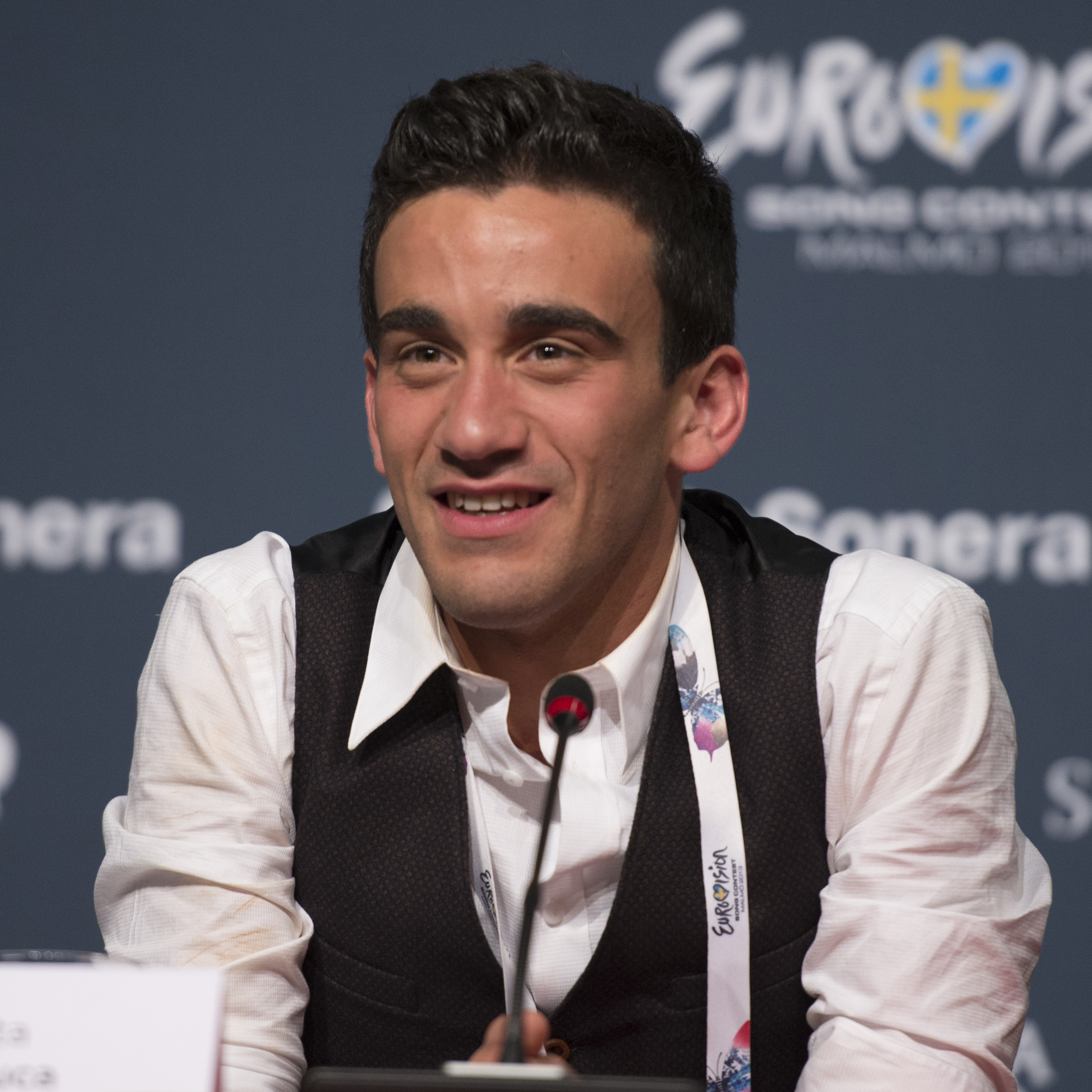 Gianluca at a press conference during the Eurovision Song Contest 2013 in Malmö. (Help translate this text)